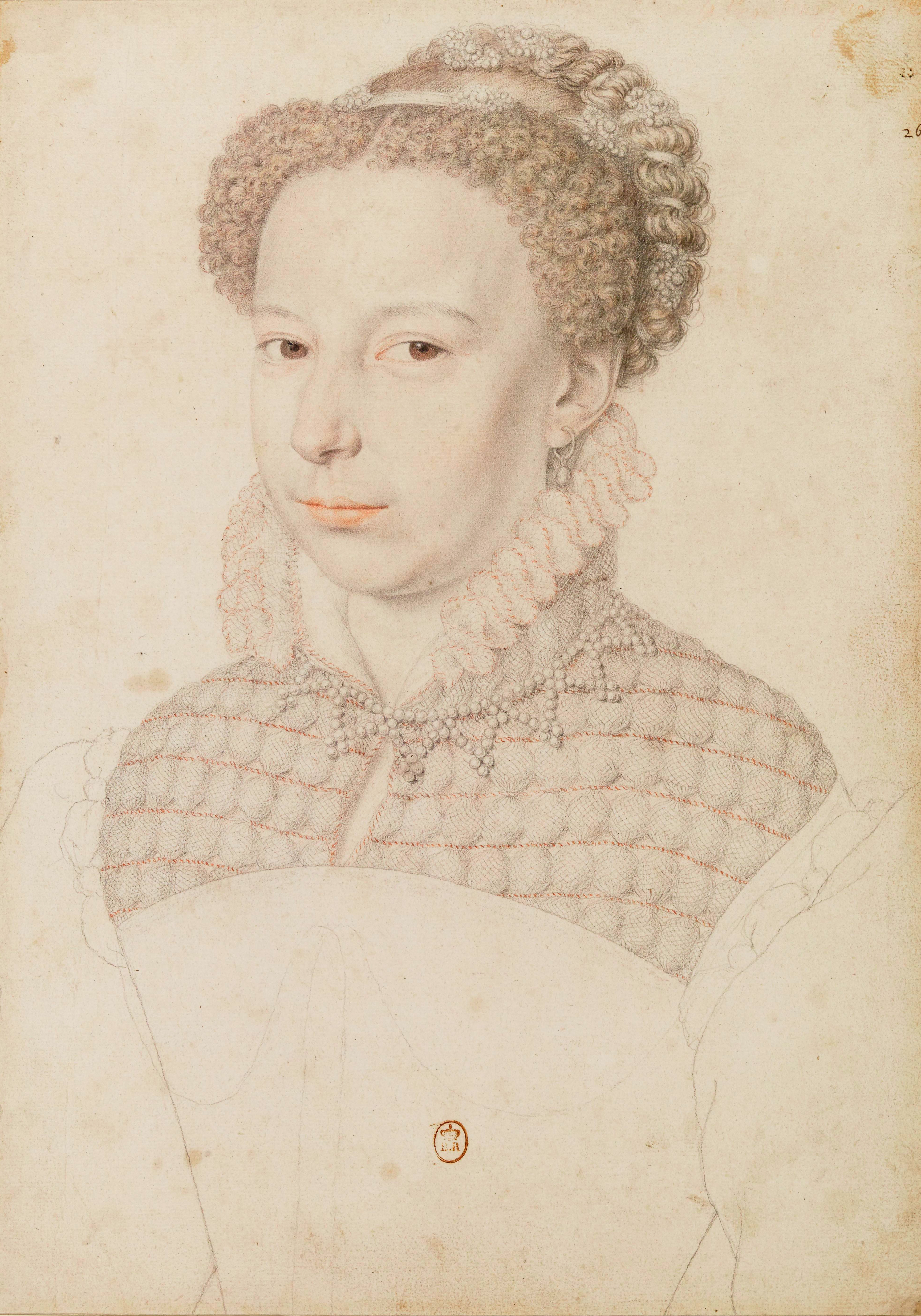 This portrait of Margaret of Valois served as a preparatory study for a painting.